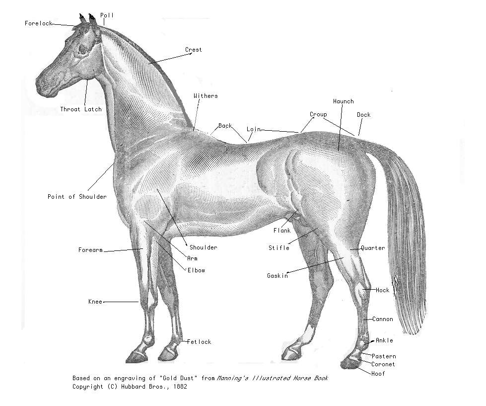 Scanned and modified engraving, now labels parts of horse's body that have special names.